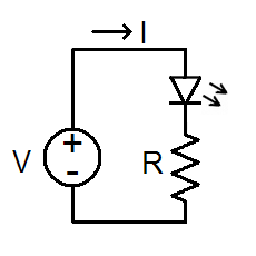 LED connected in series with resistor